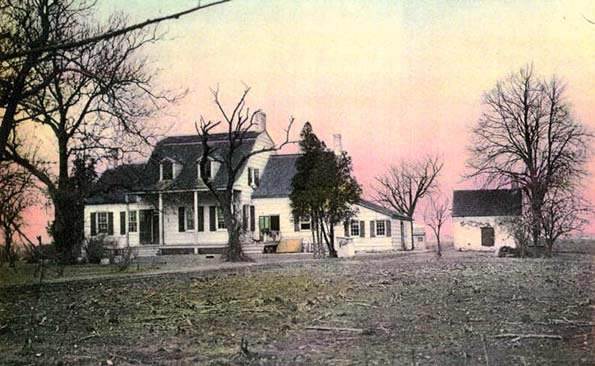 Hendrick I.Lott House Brooklyn, New York-circa 1909. 1940 East 36th Street Brooklyn, NY 11234